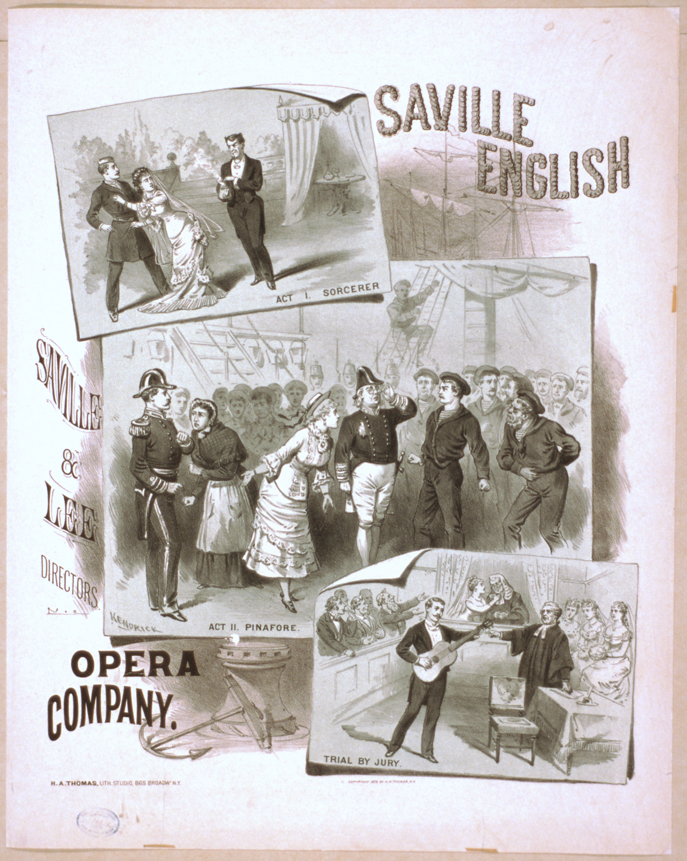 (Summary of Library of Congress details) Poster advertising Gilbert and Sullivan operas; includes The Sorcerer, H.M.S. Pinafore and Trial by Jury, presented without the authorization of the author or composer by Saville English Opera Company CREATED/PUBLISHED in New York by: H.A. Thomas Lith. Studio, c. 1879 CALL NUMBER: POS - TH - OPT .S67, no. 1a (C size) [P&P] REPRODUCTION NUMBER: _ _ _ _ _ No known restrictions on publication. MEDIUM: 1 print (poster) : lithograph, color ; 62 x 49 cm. K14810(?) U.S. Copyright Office Created by "H.A. Thomas Lith. Studio, 865 Broadway, N.Y.; copyright 1879 by H.A. Thomas." B&W version of poster signed by: Kendrick, C. Saville & Lee, directors. Composer: Sullivan, Arthur, Sir, 1842-1900. Libretti: Gilbert, W. S. (William Schwenck), 1836-1911.